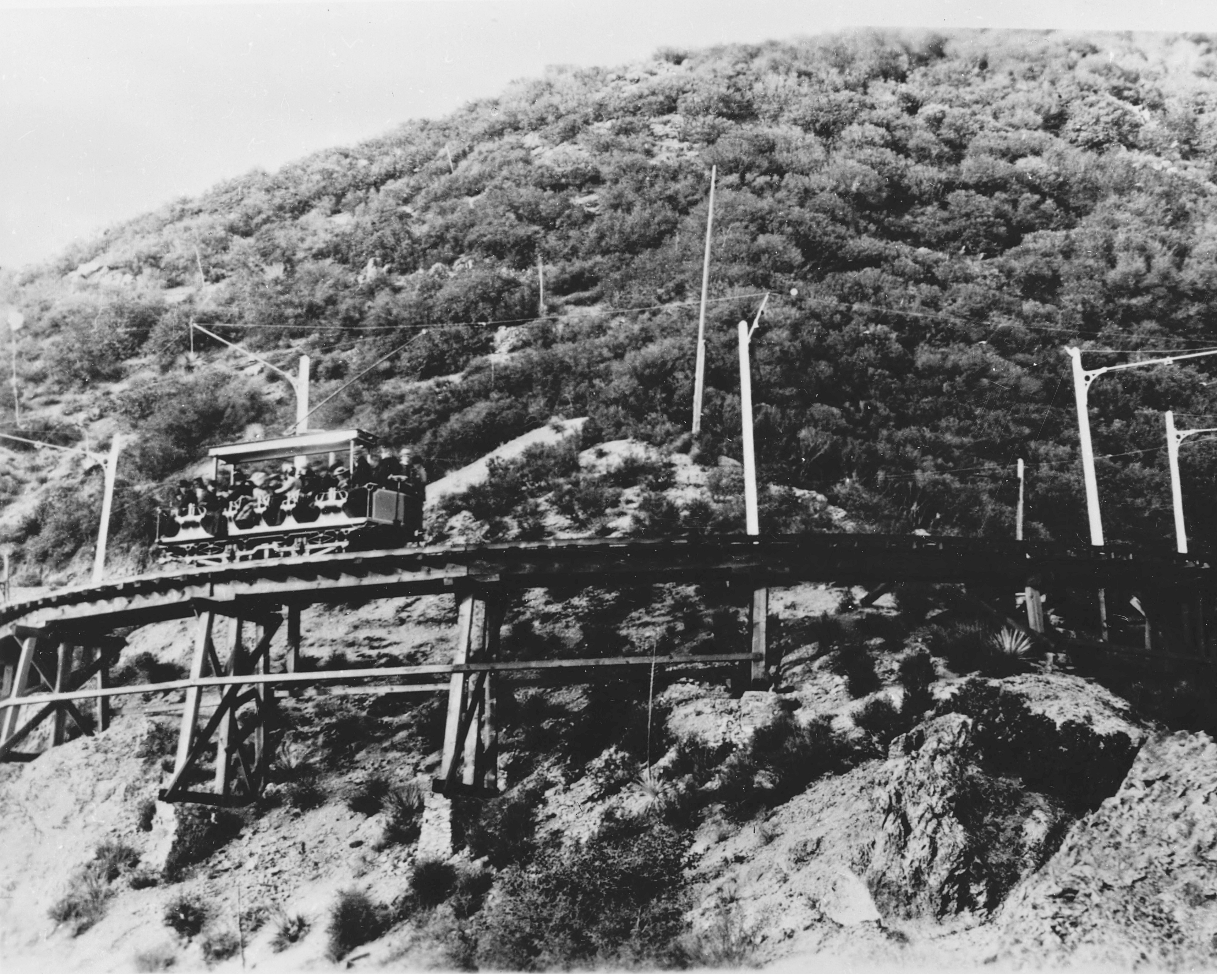 Circular railway bridge on the Mount Lowe Railway in the San Gabriel Mountains.